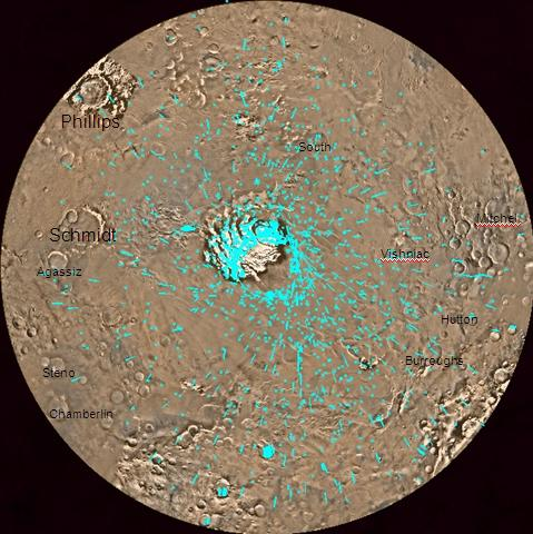 Map of Mare Australe quadrangle with labels. The small, colored rectangles represent image footprints for the narrow angle camera on the Mars Global Surveyor. Some are about 1 mile wide, the otheers are about 2 miles wide. The map was made by the U.S. Geological survey for NASA.